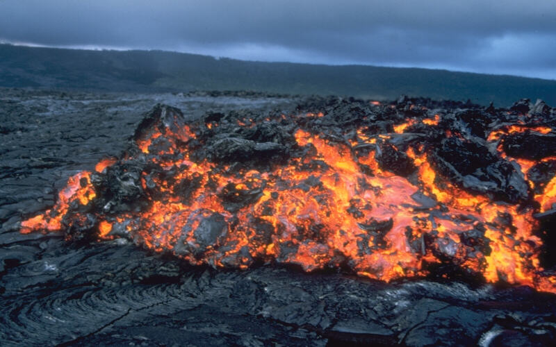 Glowing `a`a lava flow front advancing over pahoehoe lava on the coastal plain of Kilauea Volcano, Hawaii. 'A'a (pronounced "ah-ah") is a Hawaiian term for lava flows that have a rough rubbly surface composed of broken lava blocks called clinkers. The incredibly spiny surface of a solidified 'a'a flow makes walking very difficult and slow. The clinkery surface actually covers a massive dense core, which is the most active part of the flow. As pasty lava in the core travels downslope, the clinkers are carried along at the surface. At the leading edge of an 'a'a flow, however, these cooled fragments tumble down the steep front and are buried by the advancing flow. This produces a layer of lava fragments both at the bottom and top of an 'a'a flow.